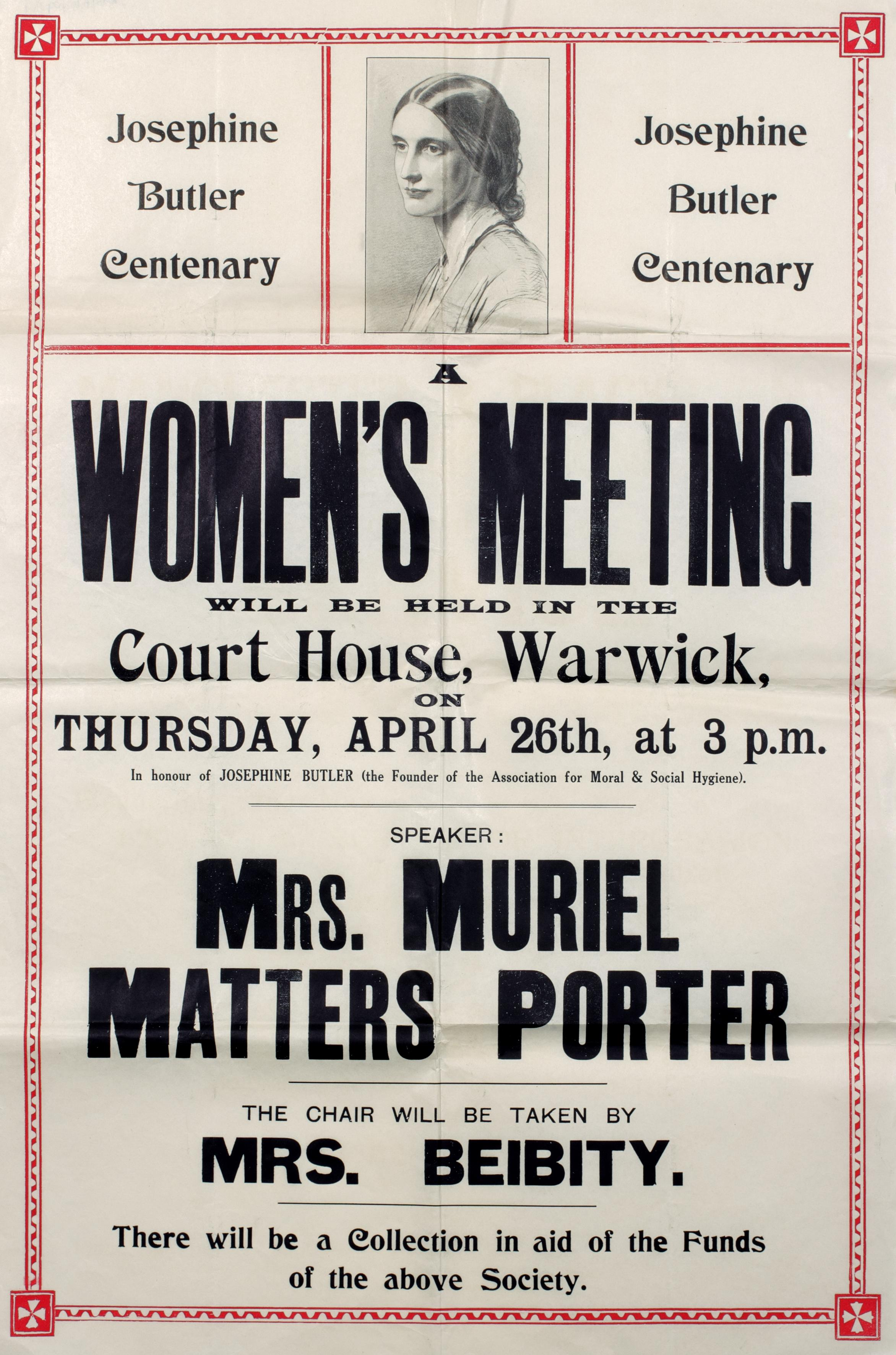 3AMS/H/01/04i Poster, printed, paper, black inscription with red border on white background, image of Josephine Butler in centre at top with inscription 'Josephine Butler Centenary' either side, inscription underneath: 'Josephine Butler Centenary. A Women's Meeting will be held in the Court House, Warwick, Thursday Apr 26 at 3pm in honour of Josephine Butler (the Founder of the Association for Moral and Social Hygiene). Speaker: Mrs Muriel Matters Porter. The Chair will be taken by Mrs Beibity. There will be a Collection in aid of the funds of the above Society'